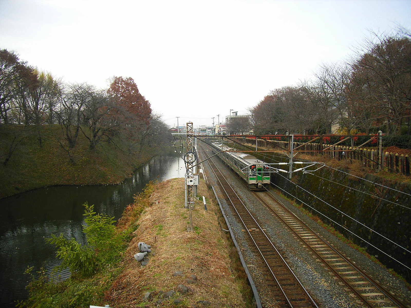 Ōu Main Line and the moat of Yamagata Castle. Yamagata, Yamagata prefecture, Japan.